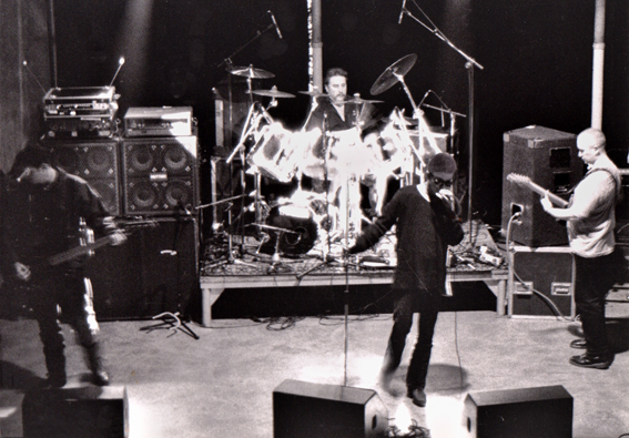 The Stranglers during a soundcheck in Toulouse, 1995